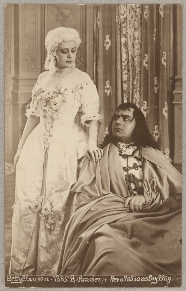 Betty Nansen and Valdemar Psilander in Revolutionsbryllup 1914 KB id: ke019755 Photo: Nordisk Films Kompagni Department of Maps, Prints and Photographs, The Royal Library, Denmark.